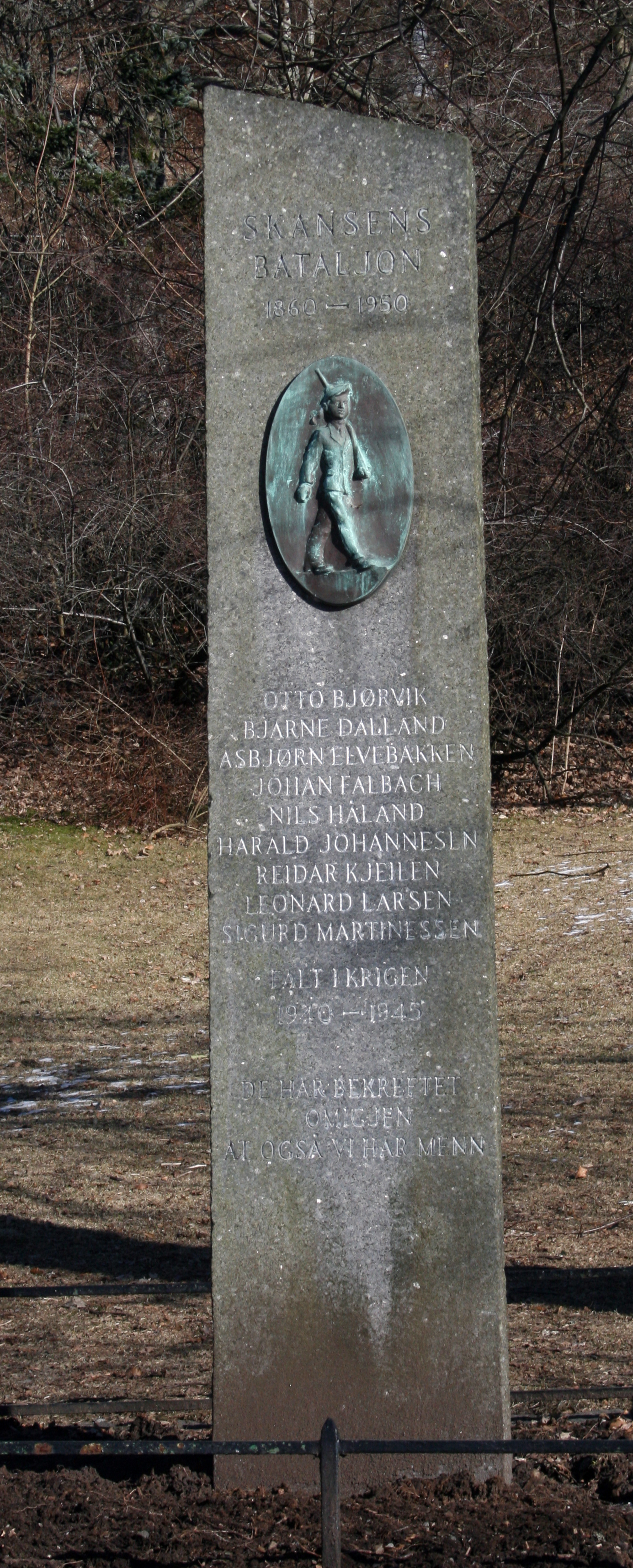 Memorial of members of the Skansens bataljon youth organization (buekorps) in Bergen, Norway. Close to the Skansen fire station; now home of the Skansens bataljon.